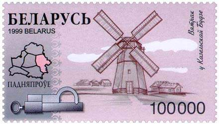 Stamp of Belarus